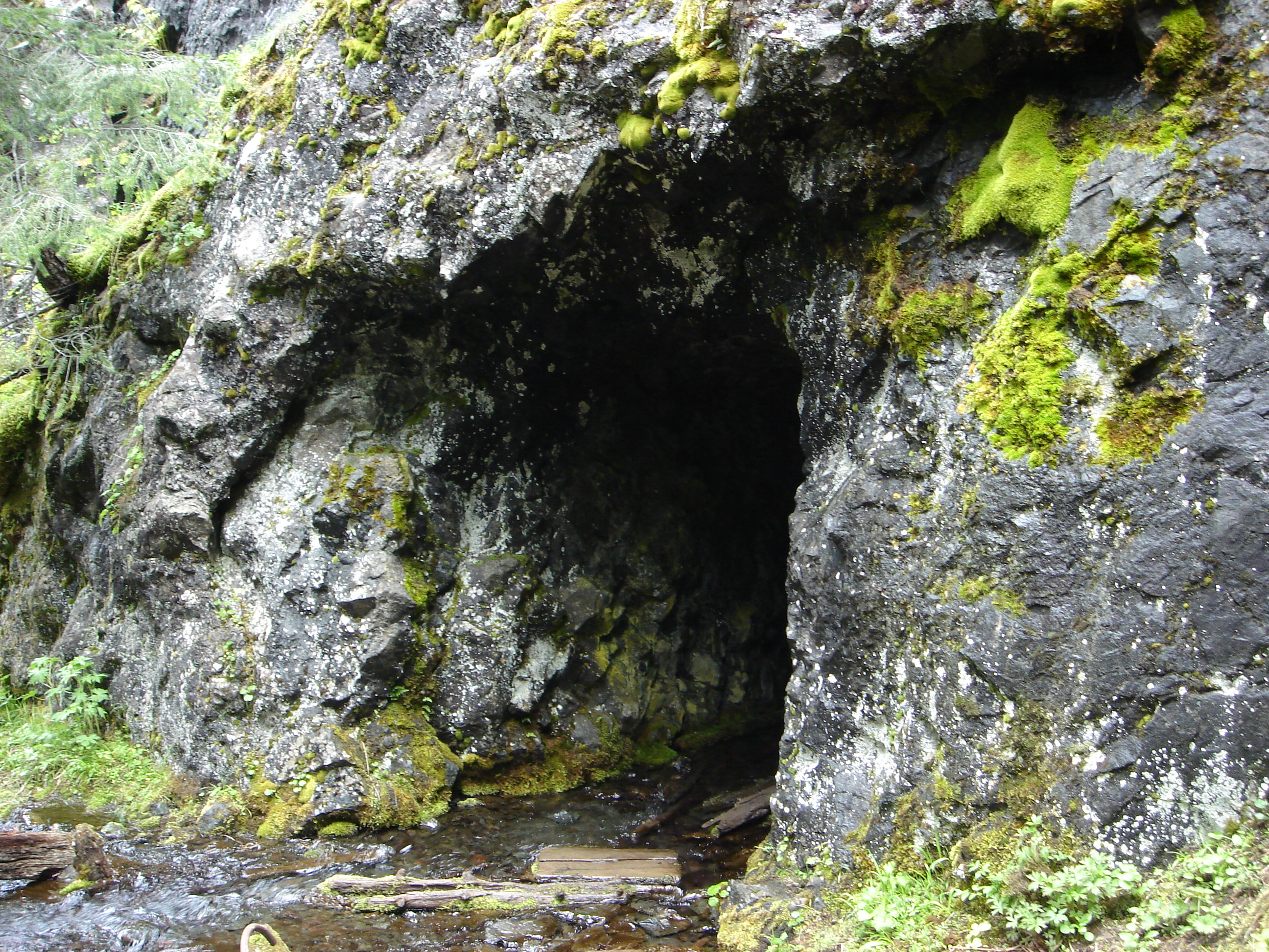 I took this picture of Tubal Cain mine in Washington in June, 2006